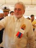 Jon Ramon Aboitiz - Filipino Billionaire - Deceased